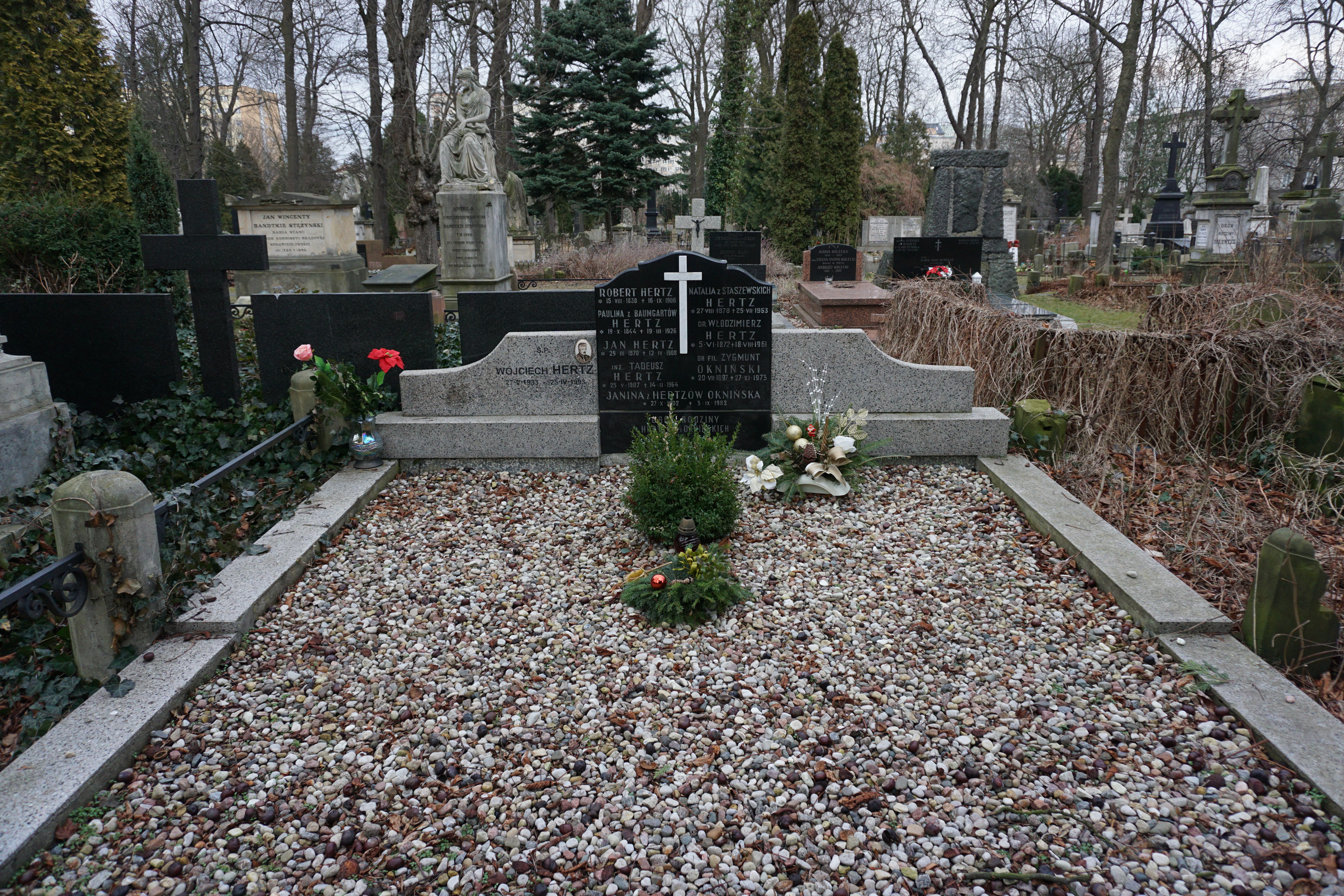 The grave of Zygmunt Okniński at the Evangelical-Augsburg Cemetery in Warsaw (avenue 16, grave 27)